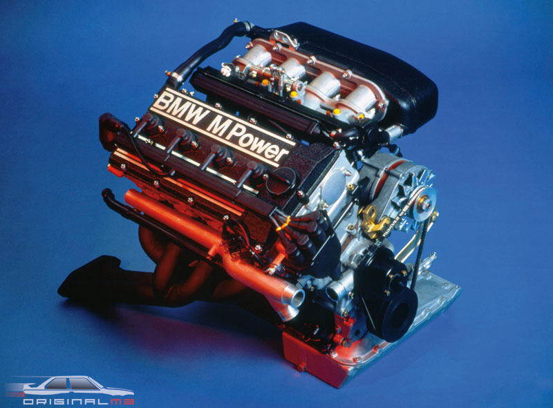 BMW E30 M3 Press Photo 3